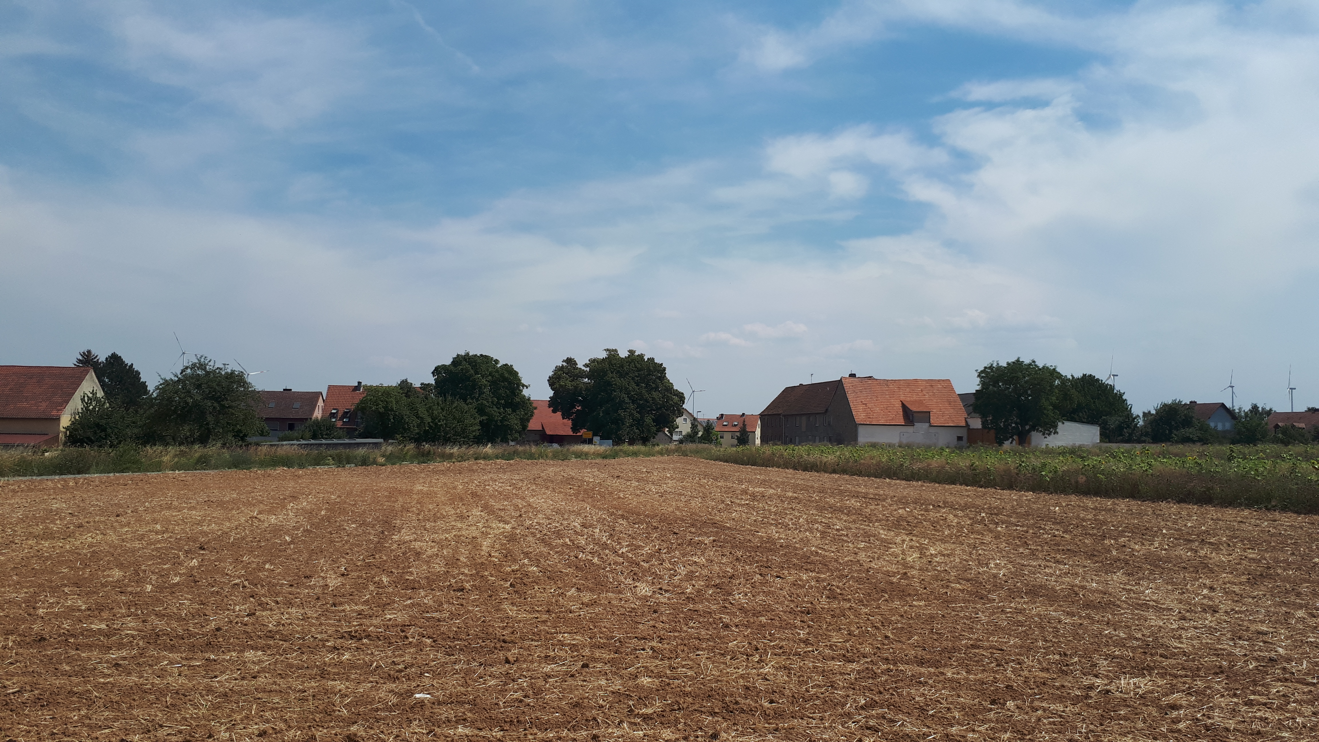 The village of Biebelried, District of Kitzingen, Bavaria, Germany